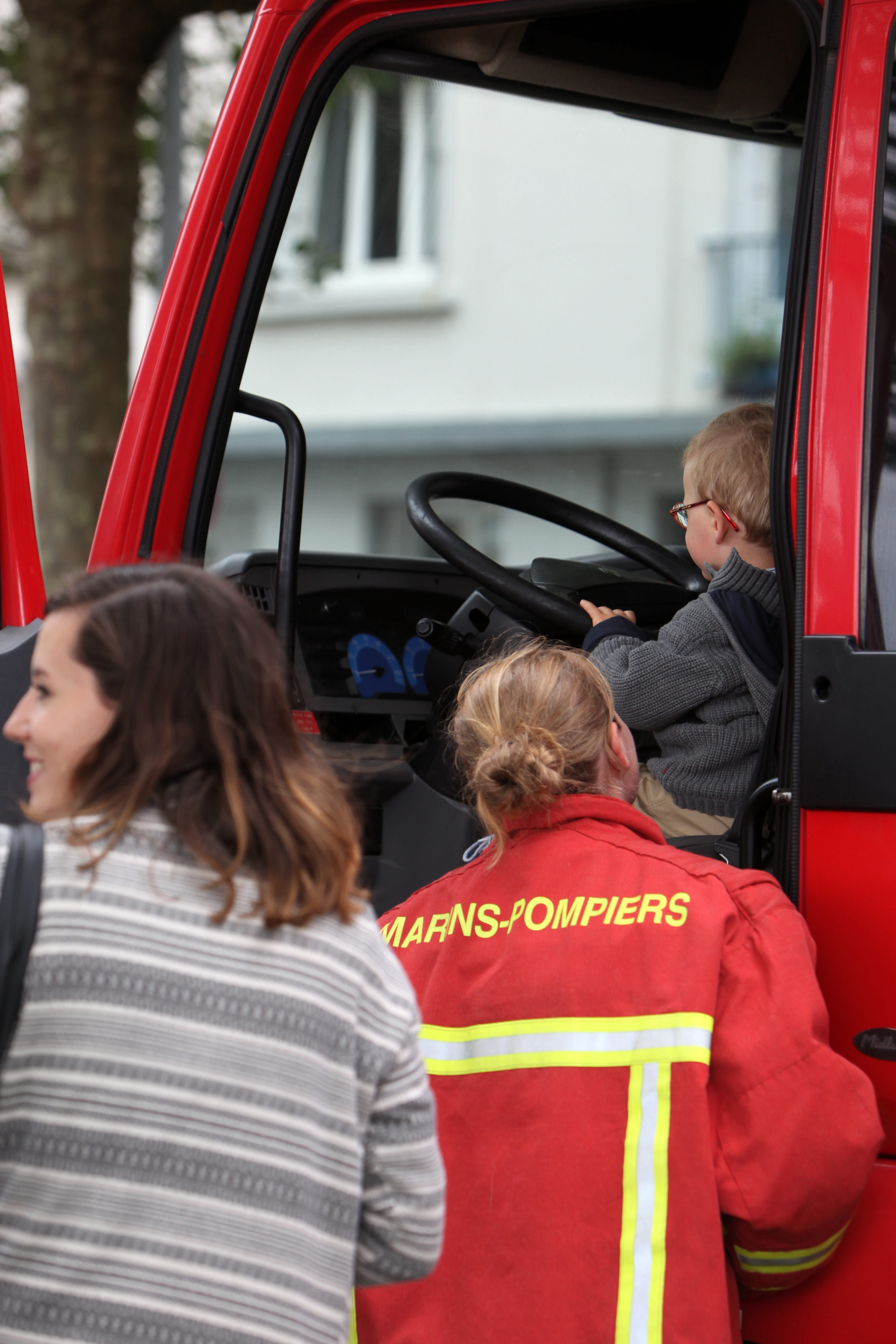 Marins-Pompiers of the fire brigade of Brest Naval Base attending ceremonies of the 14 July 2015 in Brest